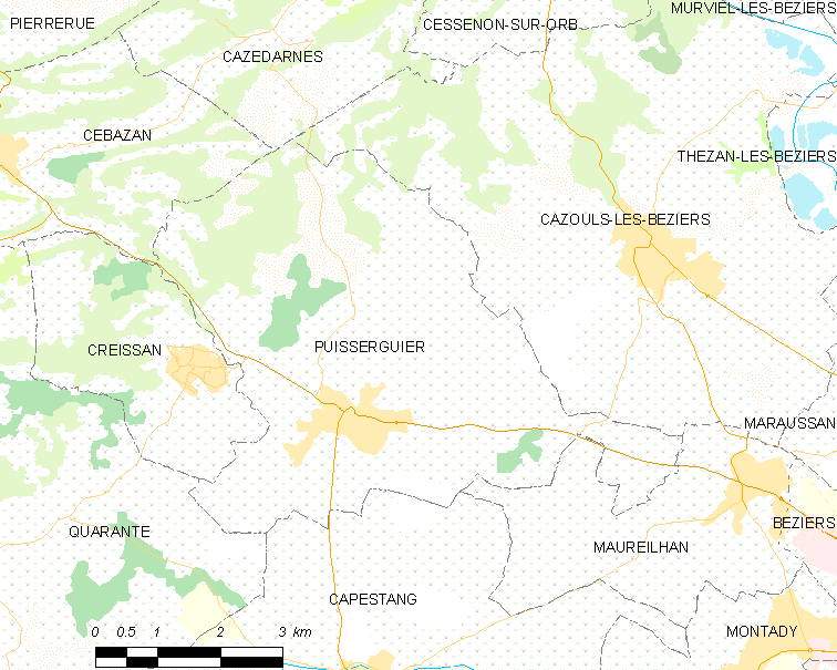 Map commune FR insee code 34225.png - Puisserguier